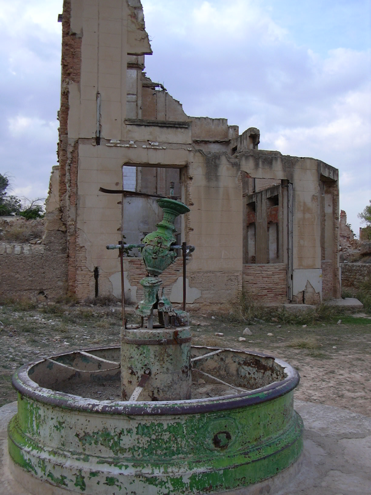 Belchite - Town in Aragon, Spain - Destroyed during the Spanish Civil War (1937), was not rebuild and stayed as monument